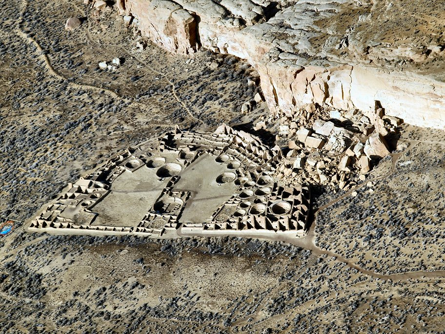 Aerial view of Pueblo Bonito, December, 2009